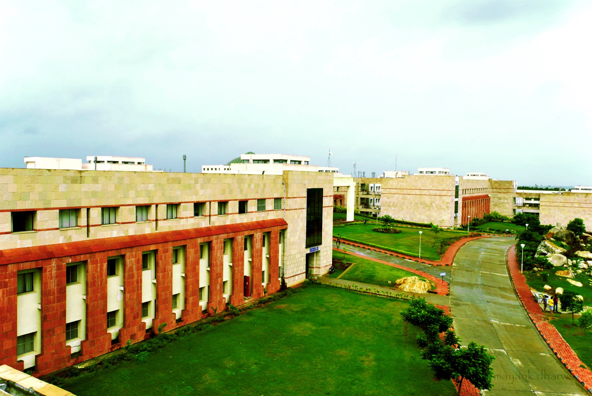 View from the top of the Academic Block, BPHC